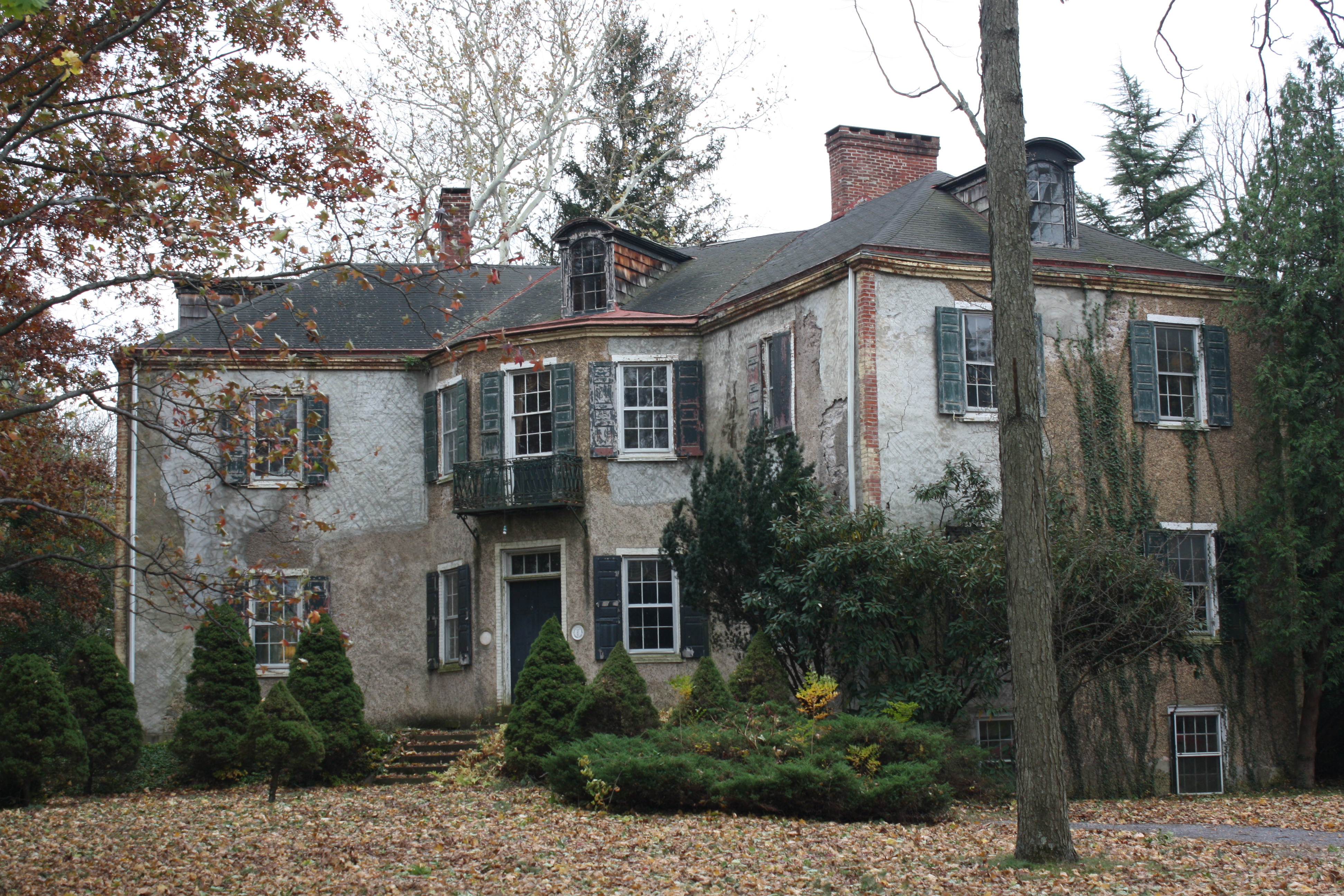 Cintra is a historic home located at New Hope, Bucks County, Pennsylvania. Designed after a Portuguese palace. Object location40° 21′ 50″ N, 74° 57′ 35″ W